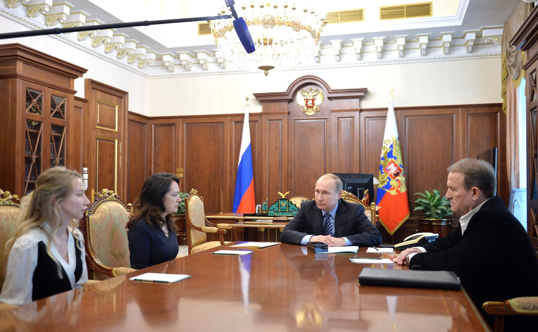 Vladimir Putin meets with Marianna Voloshina and Ekaterina Korneluk 2016-05-25 01